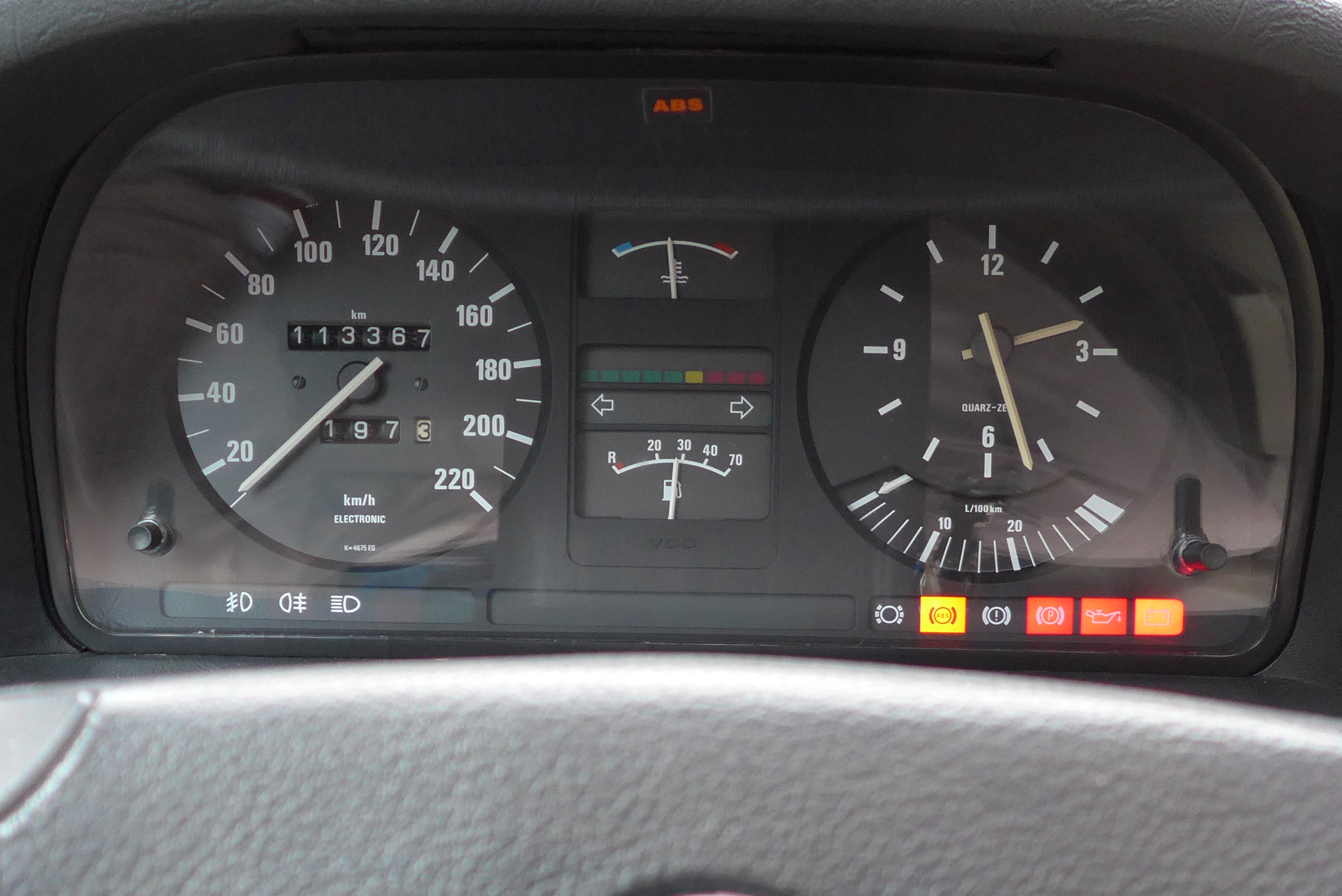 Gauge cluster BMW E28 525e